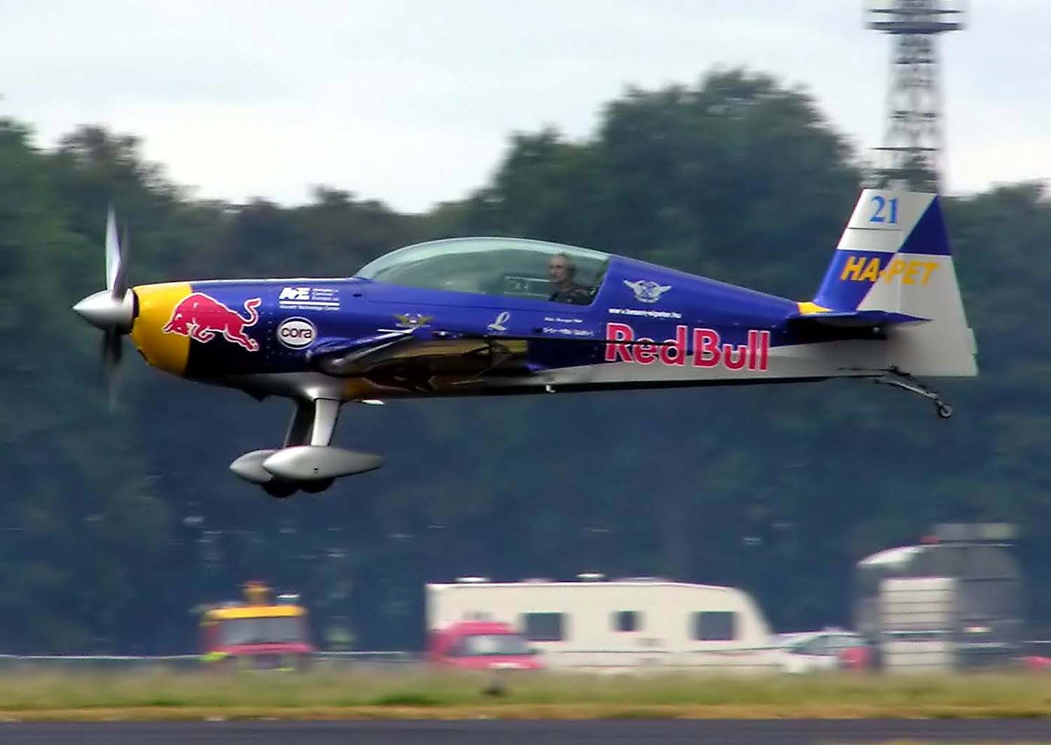 Hungarian aerobatics pilot Peter Besenyei racing his Extra 300 (HA-PET) at a Red Bull Air Race in England. Photographed by Adrian Pingstone at Kemble, Gloucestershire, England, in June 2004. and released to the public domain.